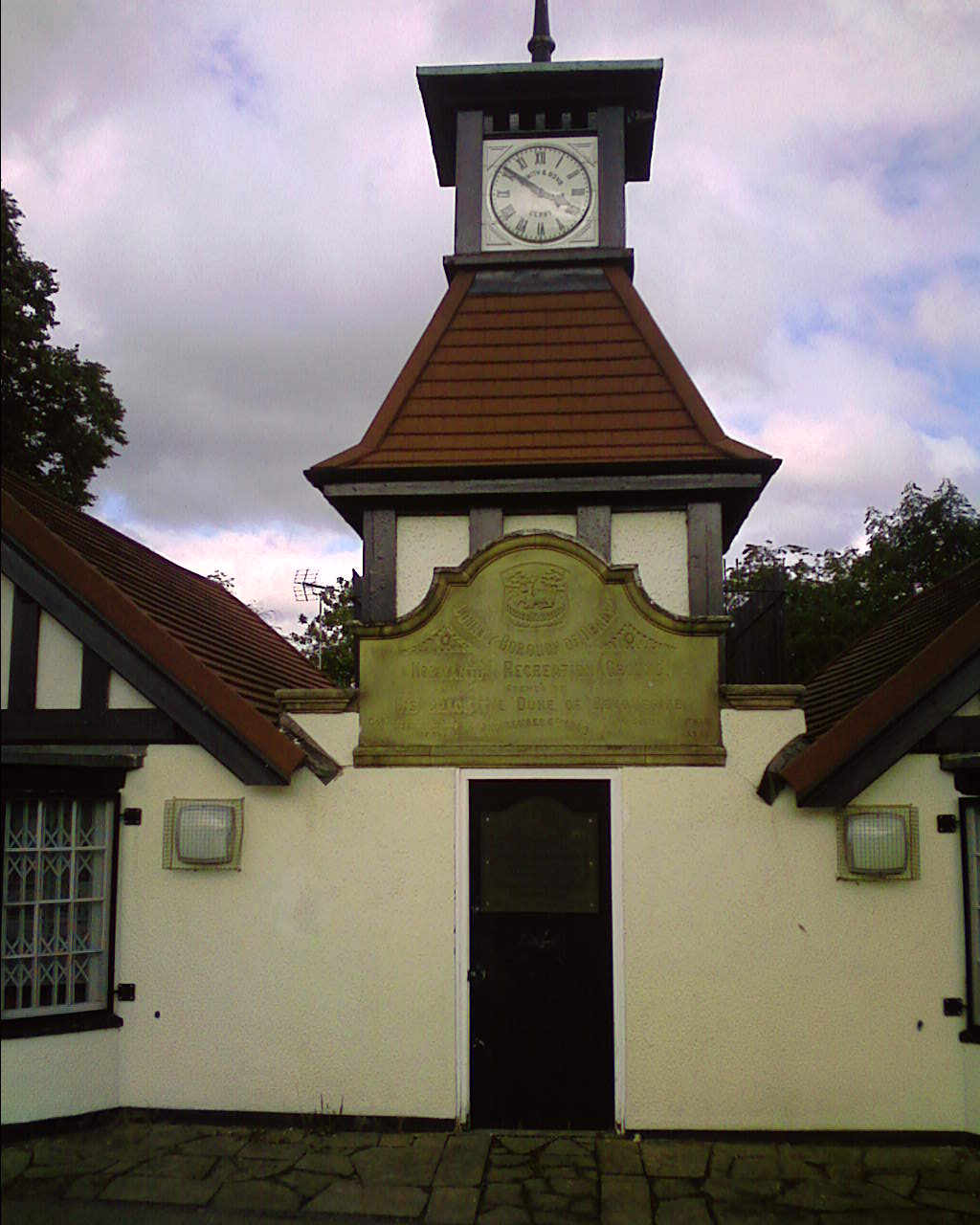 Clock Tower Cafe in Normanton Park, Derby records the opening in 1909.